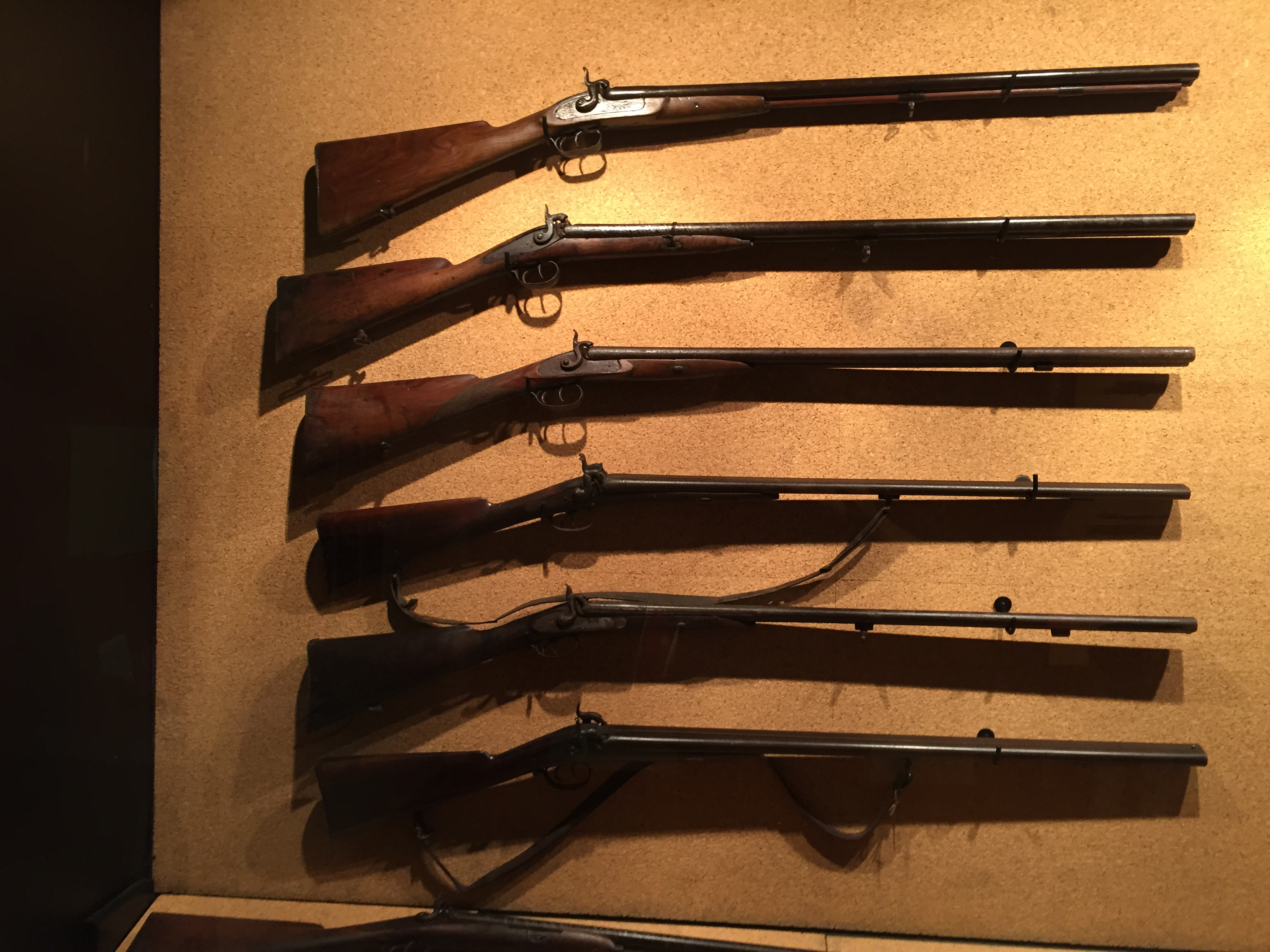 This photograph was taken with an iPhone 6